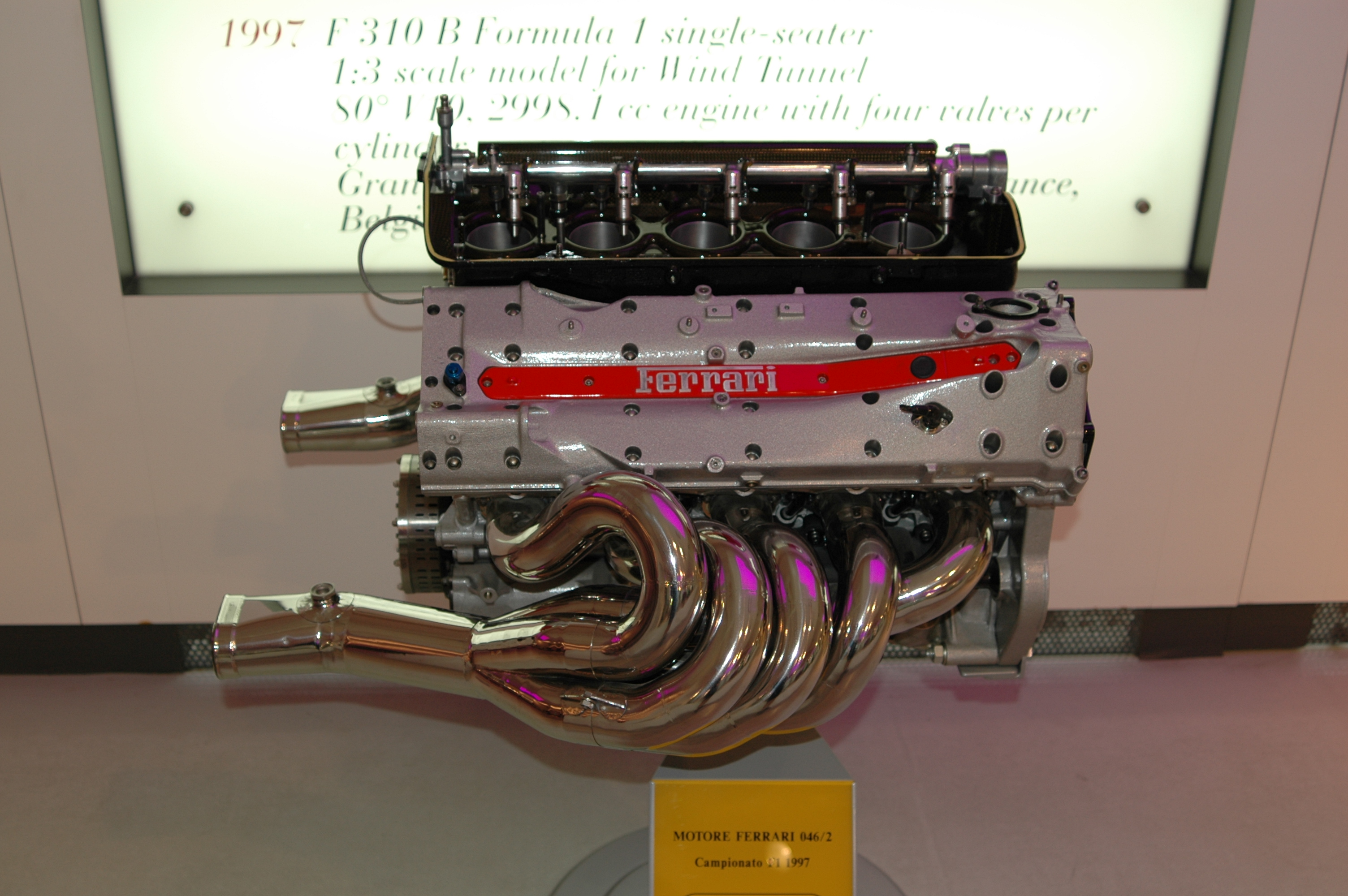 1997 Ferrari 046/2 engine